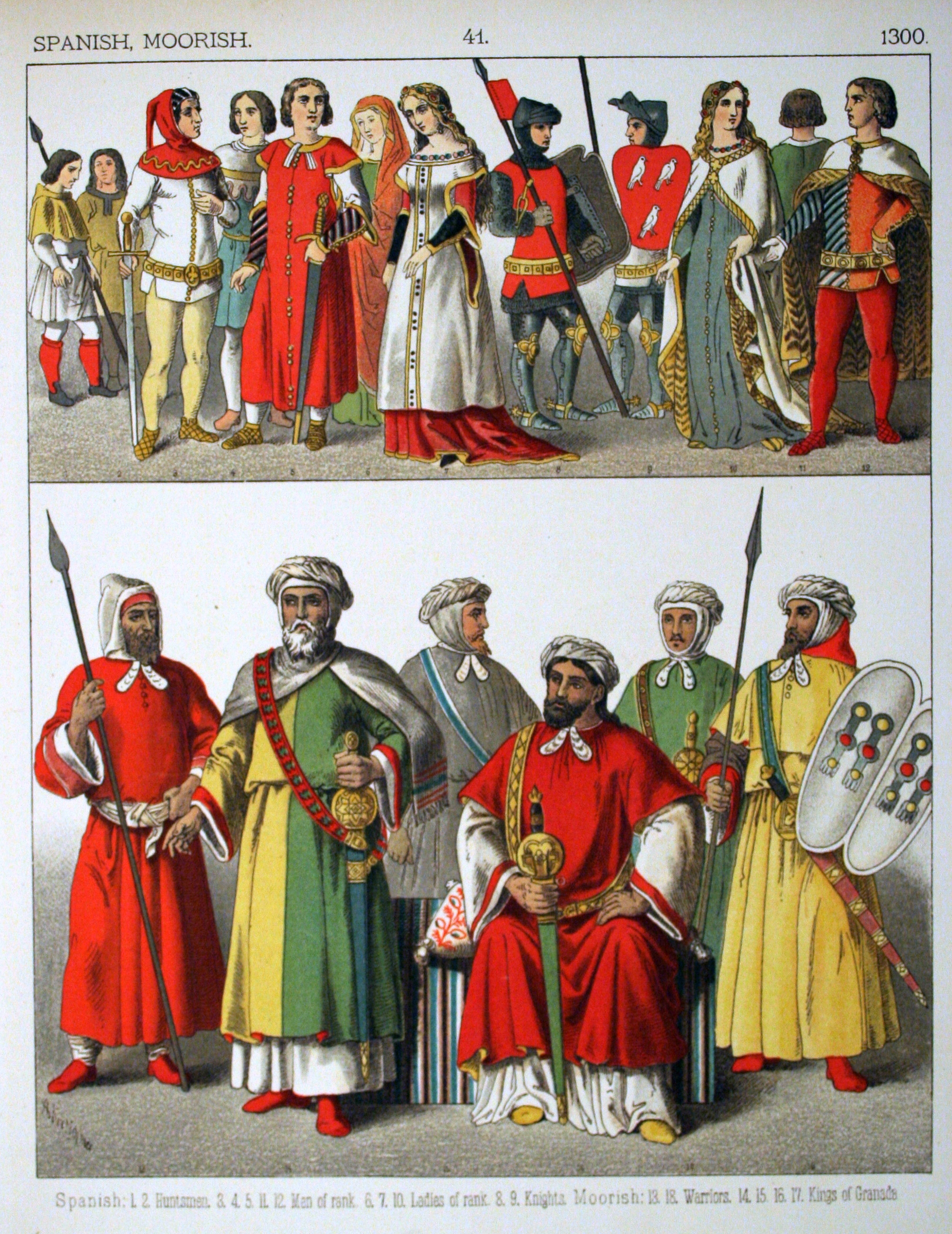 1300, Spanish, Moorish